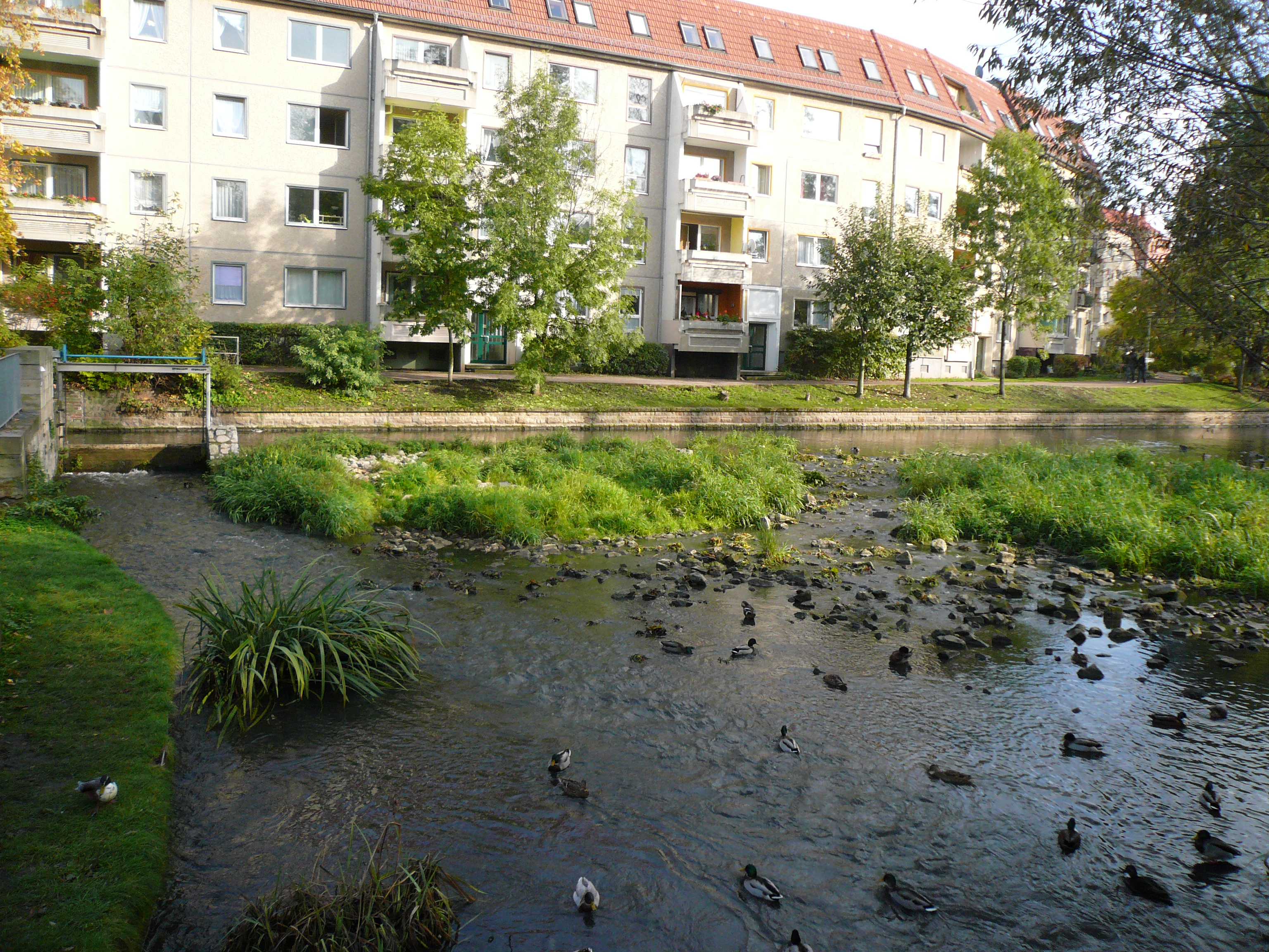 The borough "Venedig" in Erfurt, Germany.